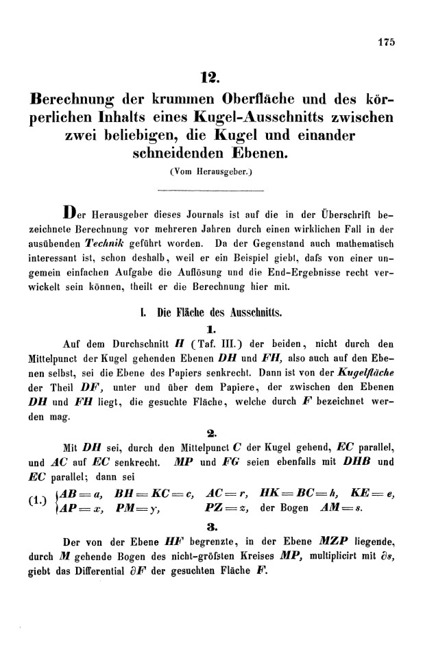 .Example of a calculation printed in "Journal für die reine und angewandte Mathematik" ("Crelles Journal"). Editor:August Leopold Crelle.